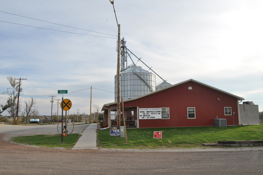 After the May 2011 tornado, Reading, Kansas came back to life. The grain elevator was rebuilt.